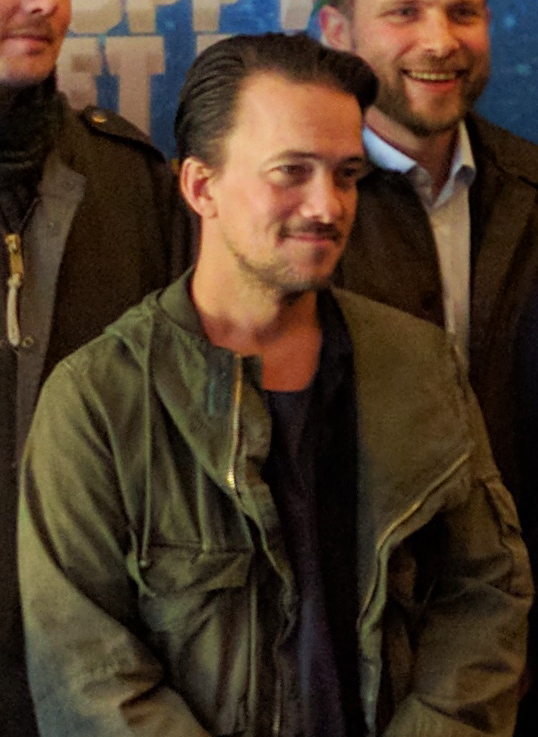 Photo from the premiere of the Swedish film "Upp i det blå".